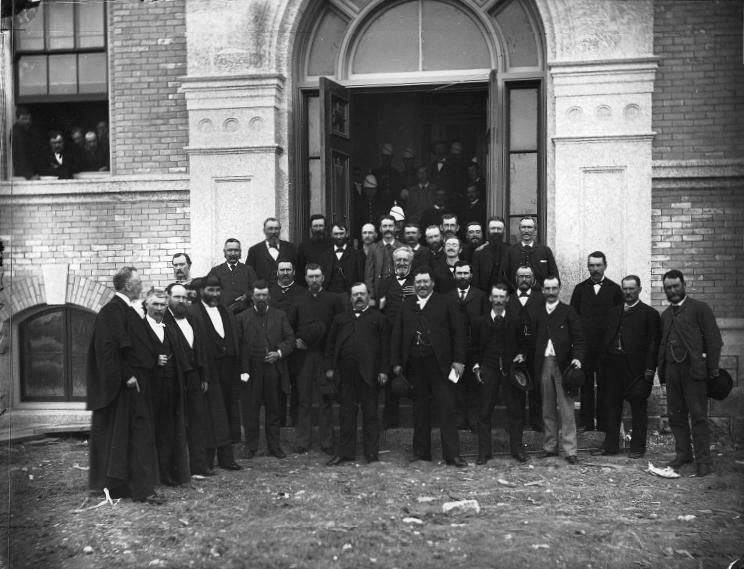 Photograph, Manitoba Legislature, 1886, Wm. Notman & Son, 1884-1886, Silver salts on glass - Gelatin dry plate process - 20 x 25 cm